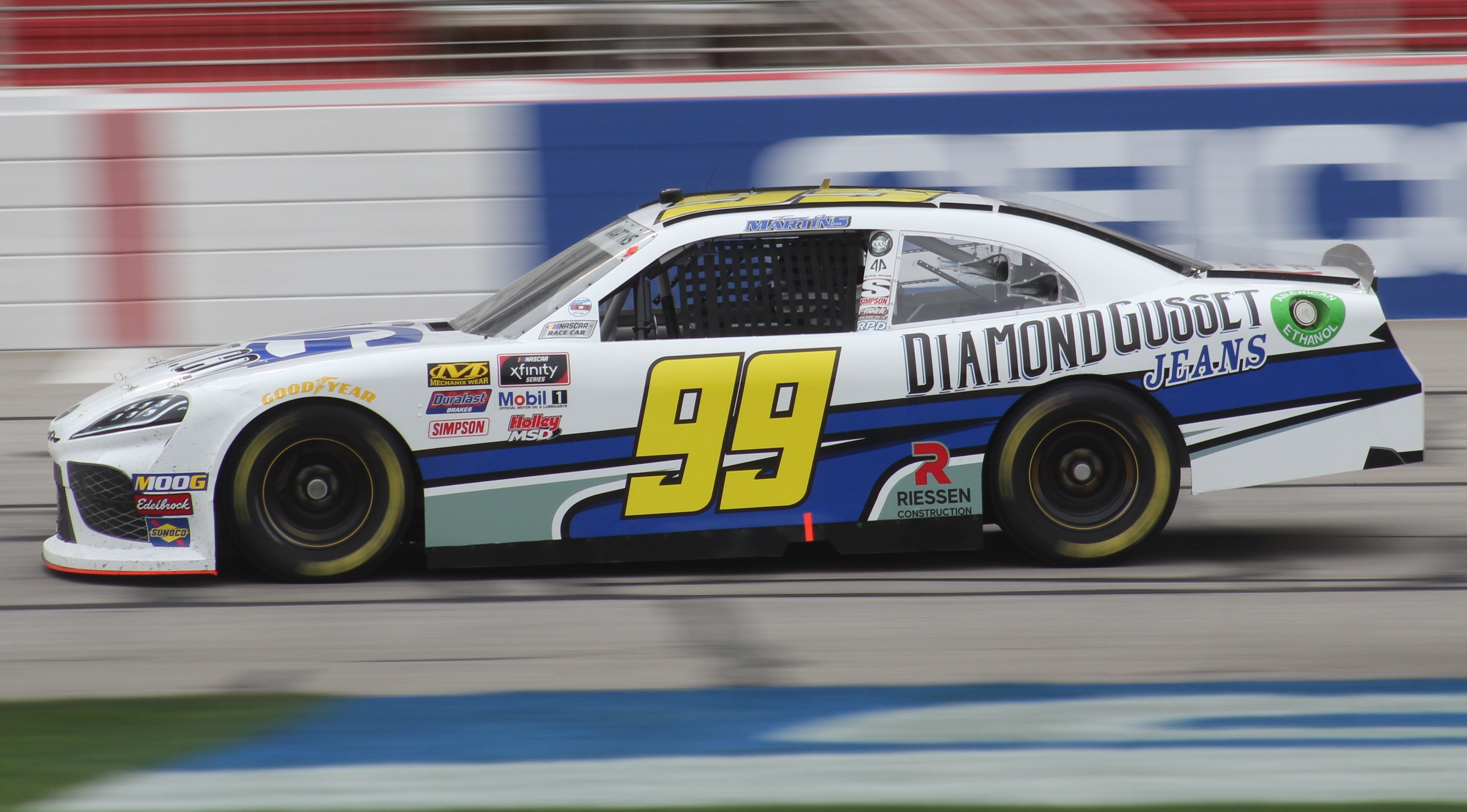 2019 Folds of Honor QuikTrip 500